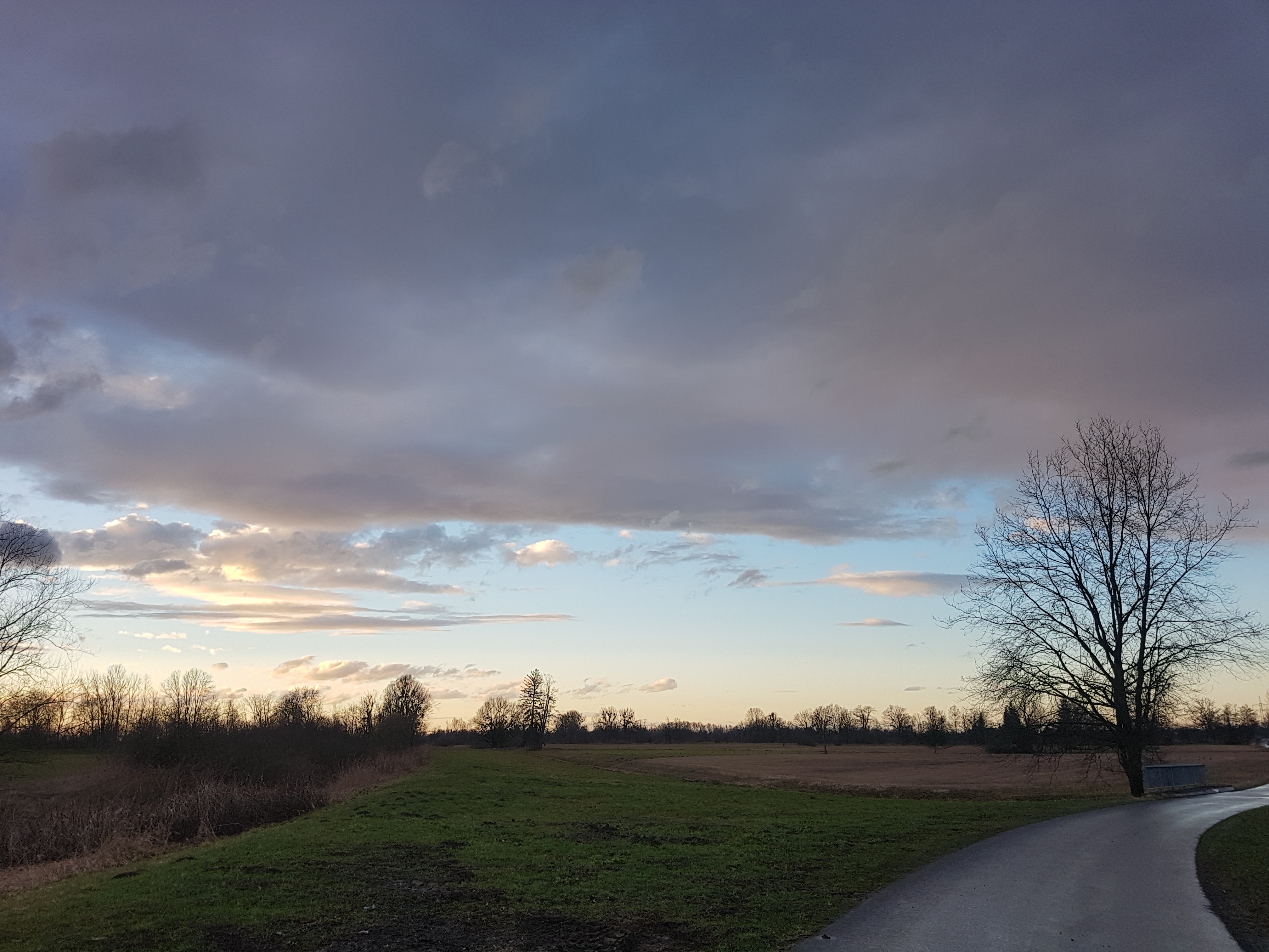 European nature reserve "Schwarzes Zeug" in Vorarlberg, Austria.